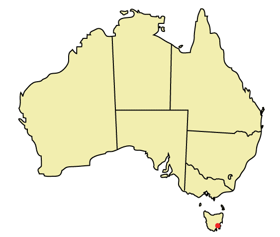 Locator map of Hobart.